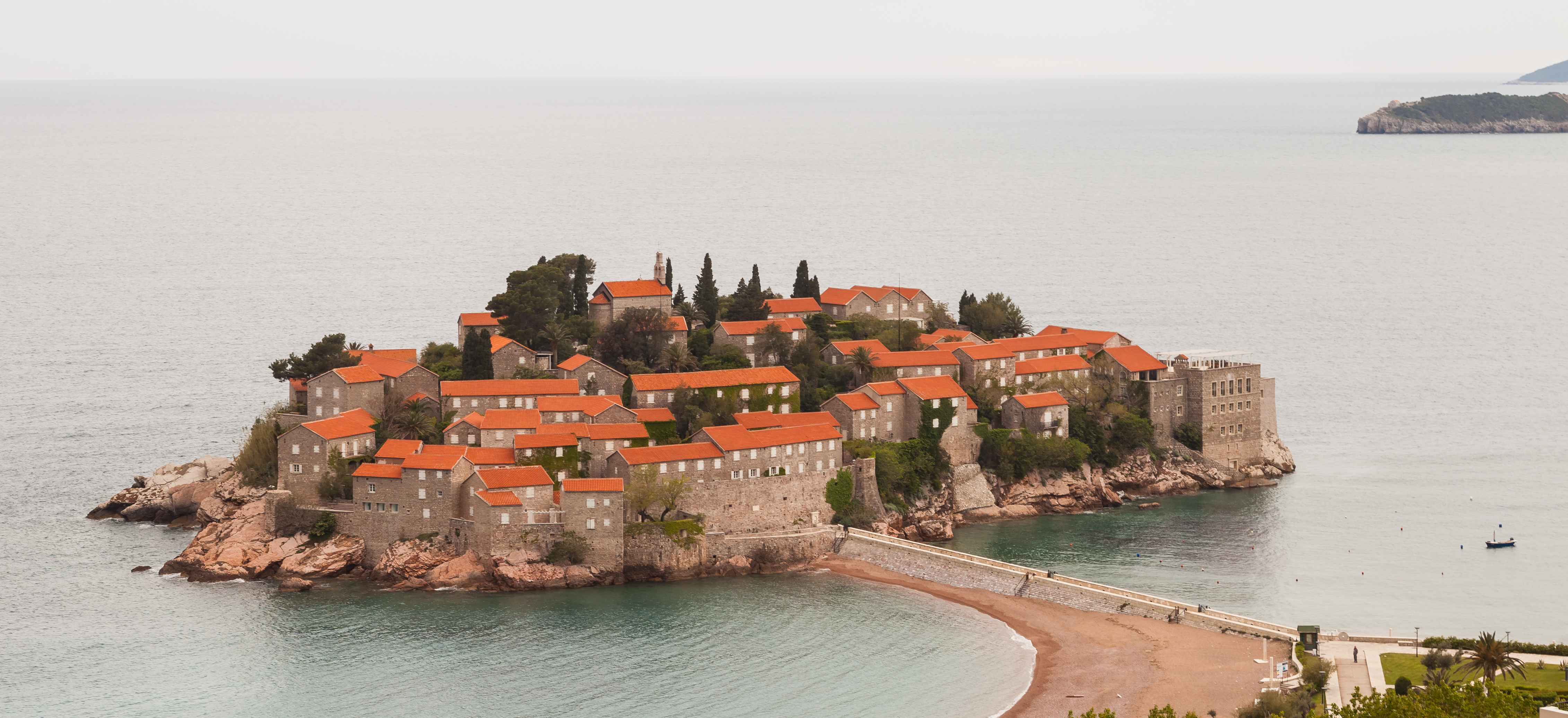 Sveti Stefan, Montenegro